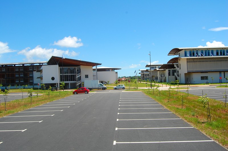 Pôle universitaire Guyanais in Cayenne, French Guiana.